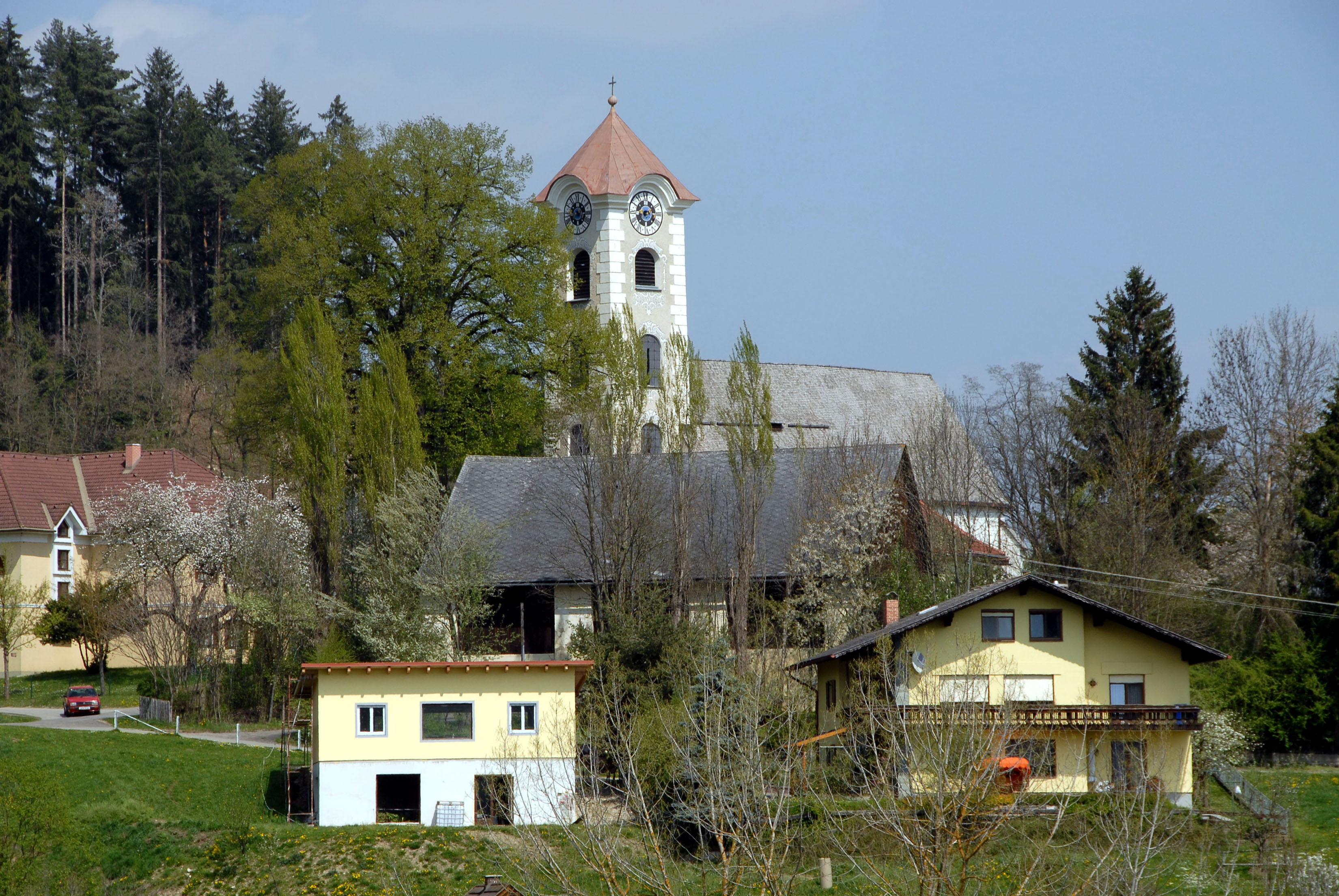 Parish church Saint George in Obermuehlbach #70, municipality Frauenstein, district Sankt Veit, Carinthia, Austria, EU